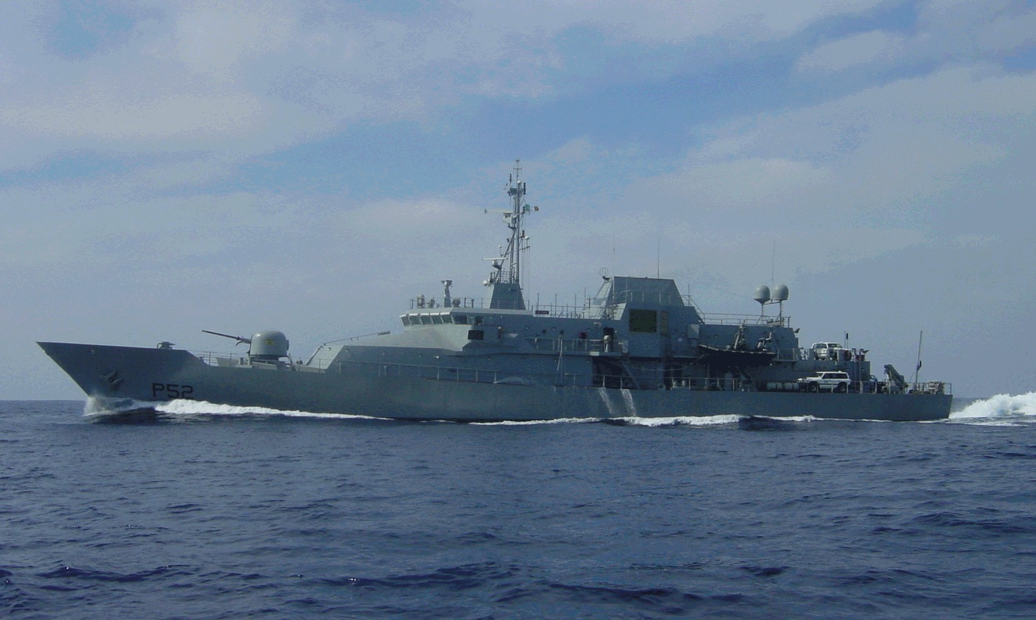 The Irish Naval Service offshore patrol vessel LÉ Niamh (P52) sailing on August 9, 2013.